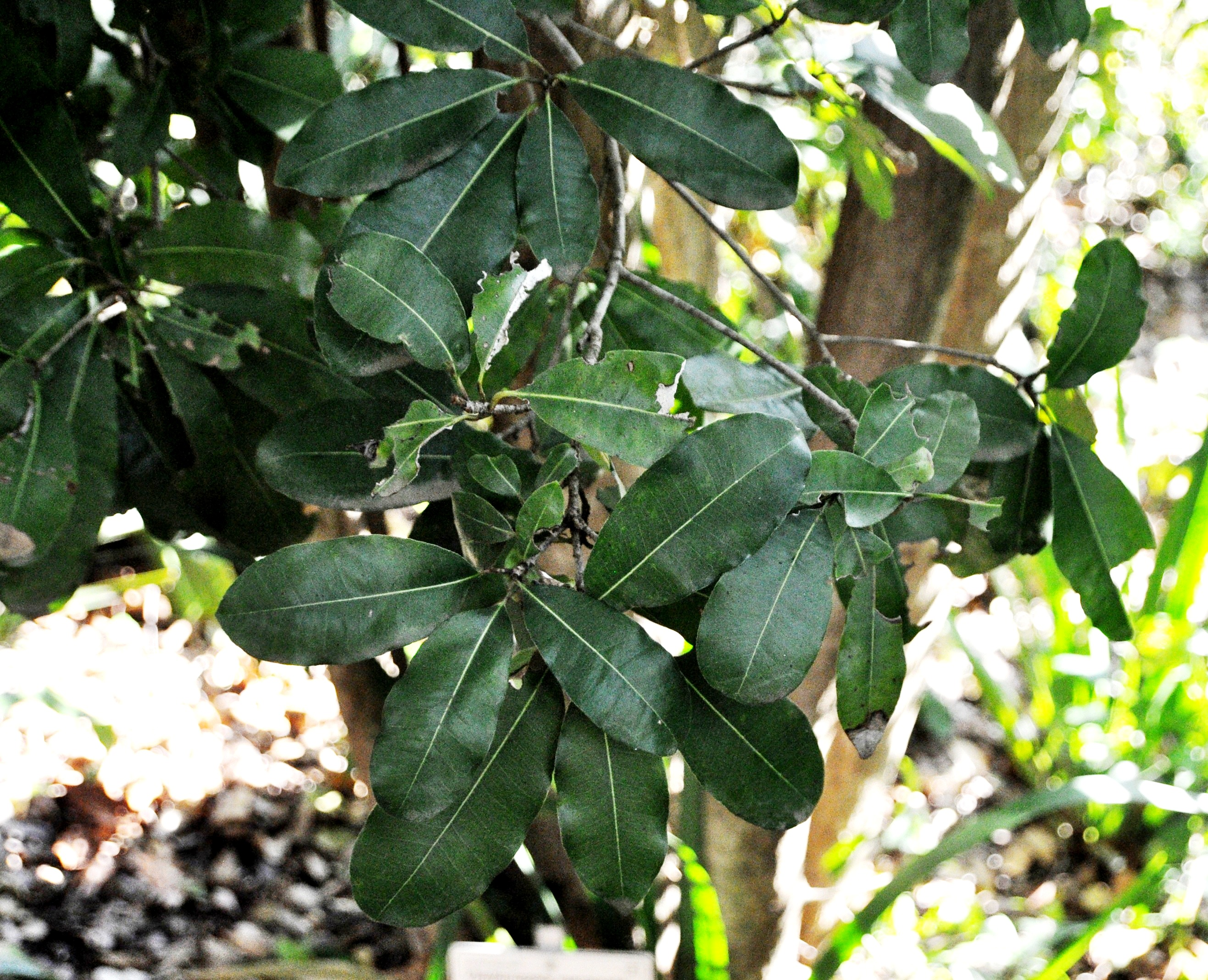 Foliage of a Natal bush-milkwood in the Lowveld National Botanical Garden, Nelspruit, South Africa